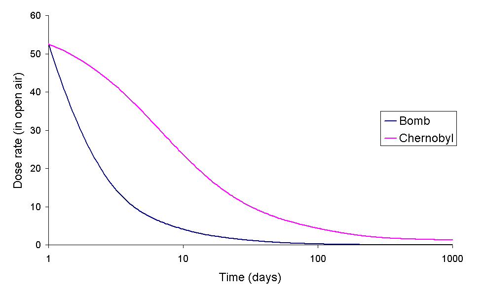 Calculated relative gamma dose rates due to bomb and chernobyl fallout normalised for the dose rate 24 hours after the events